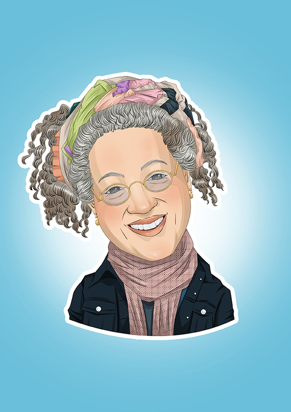 Illustration of Gail Anderson by Creative Repute graphic design agency